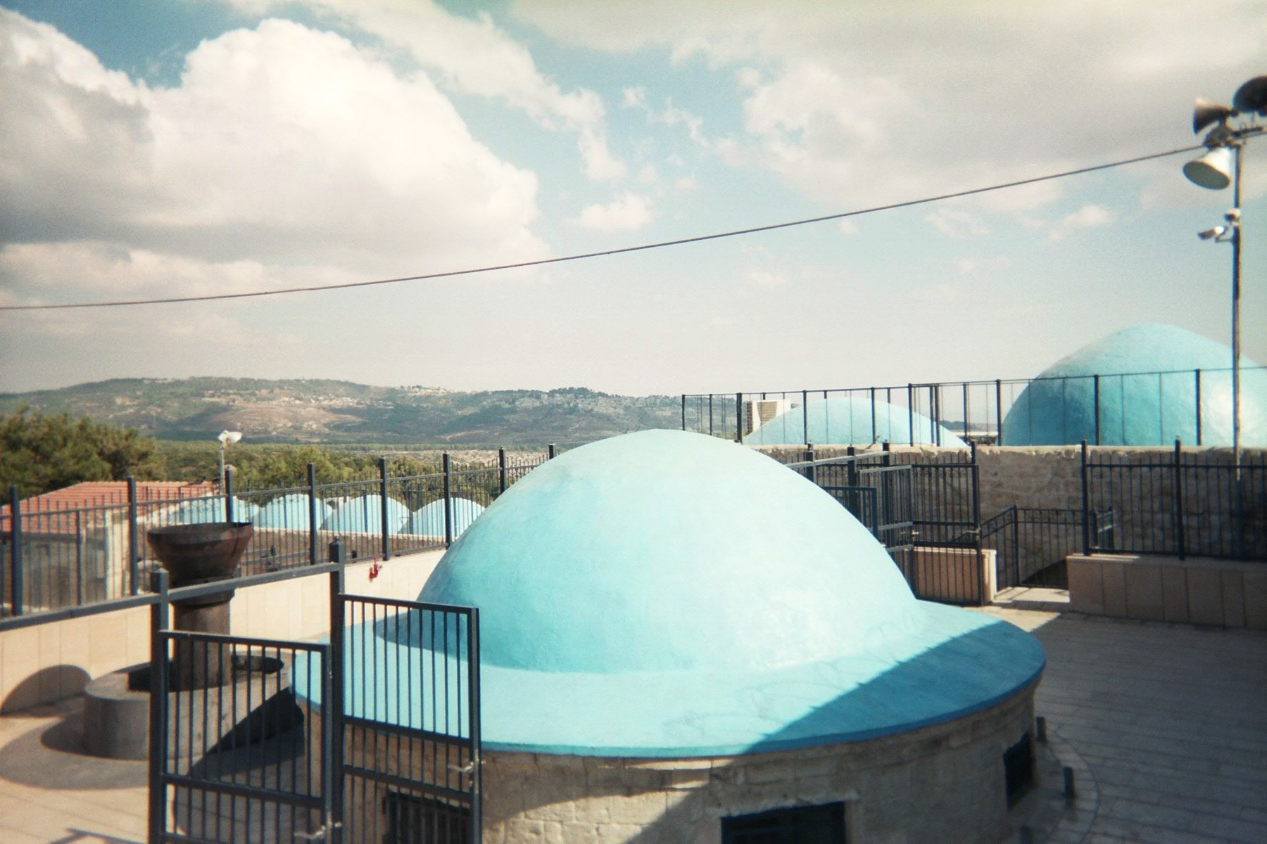 Israel Meron Rabbi Shimon Bar Yochai tomb, on the roof. In the background, Safed.